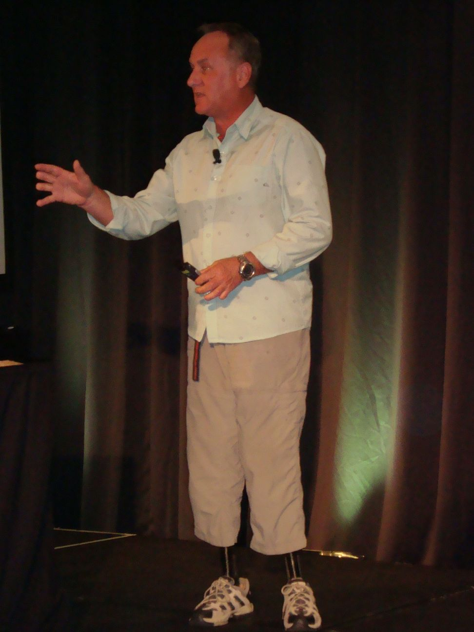 Mark Joseph Inglis, ONZM (born 27 September 1958) is a mountaineer, researcher, winemaker and motivational speaker.